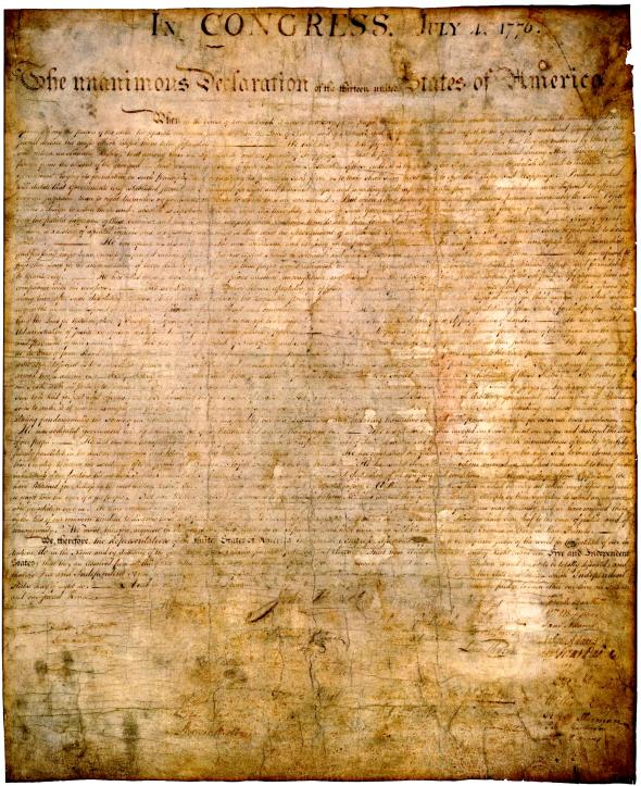 Image of the Declaration of Independence drafted by Thomas Jefferson between June 11 and June 28, 1776. The Declaration of Independence is considered the United States' most cherished symbol of liberty and Jefferson's most enduring monument. Here, Jefferson expressed the convictions in the minds and hearts of the American people. The political philosophy of the Declaration was not new; its ideals of individual liberty had already been expressed by John Locke and the Continental philosophers. What Jefferson did was to summarize this philosophy in "self-evident truths" and set forth a list of grievances against the King in order to justify before the world the breaking of ties between the colonies and the mother country. The Declaration was engrossed by Timothy Matlack in July, 1776 while serving as clerk to Charles Thomson, the Secretary of the Continental Congress.